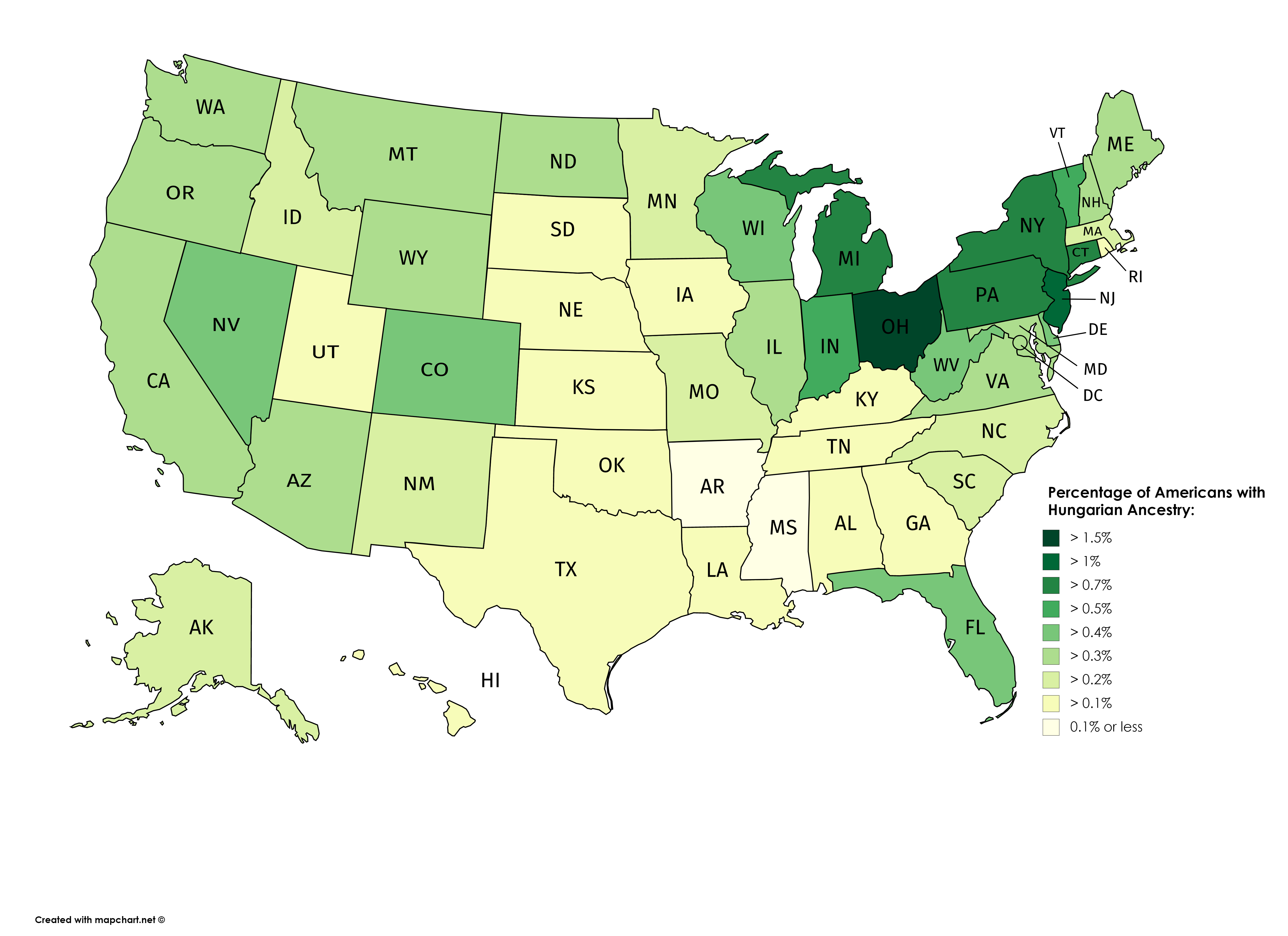 This is a map showing states by the percentage of Americans they have claiming Hungarian Ancestry in 2018 according to the ACS's 5-year Estimates.